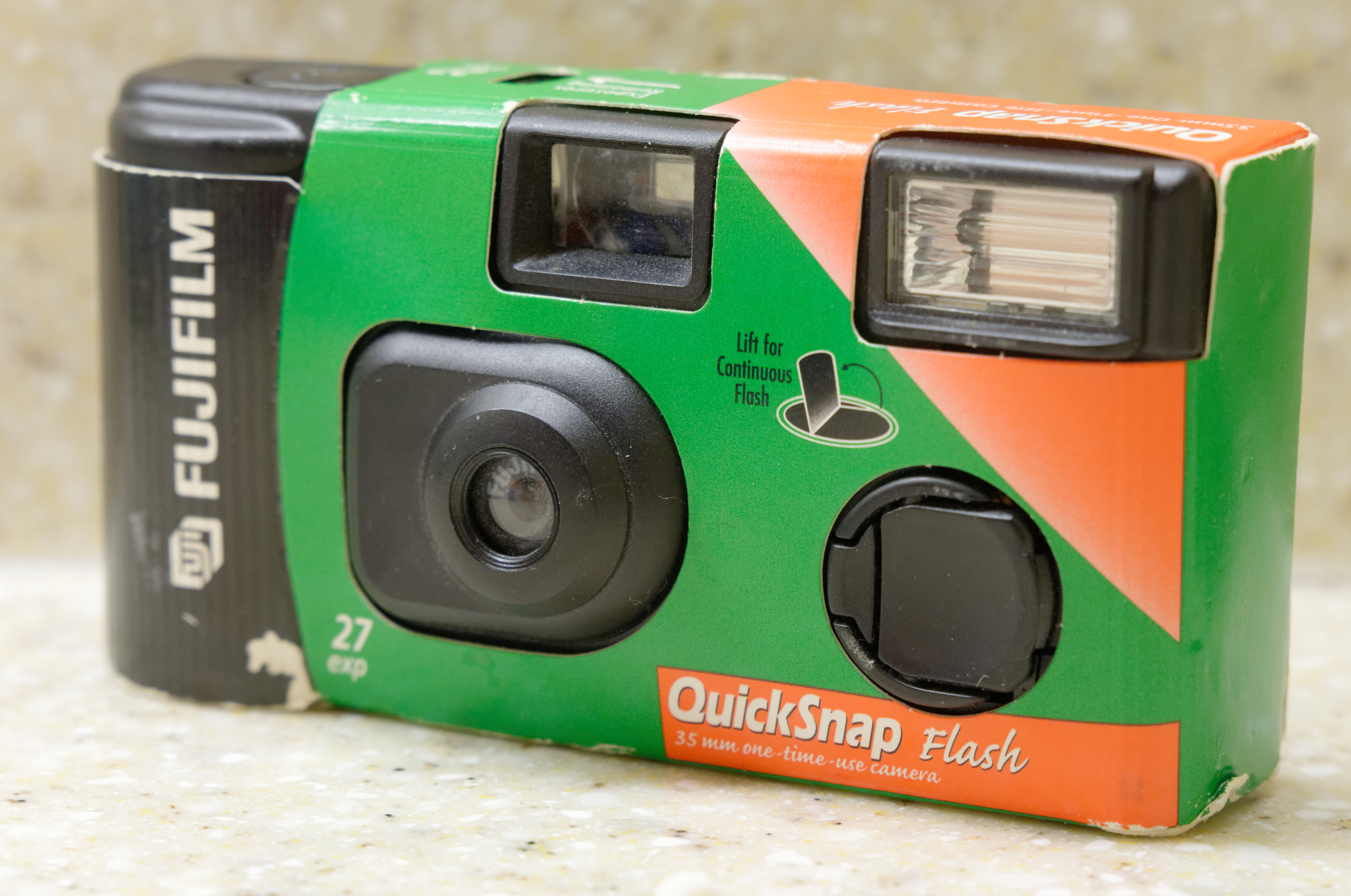 A Fujifilm QuickSnap Flash disposable camera, from 2003.